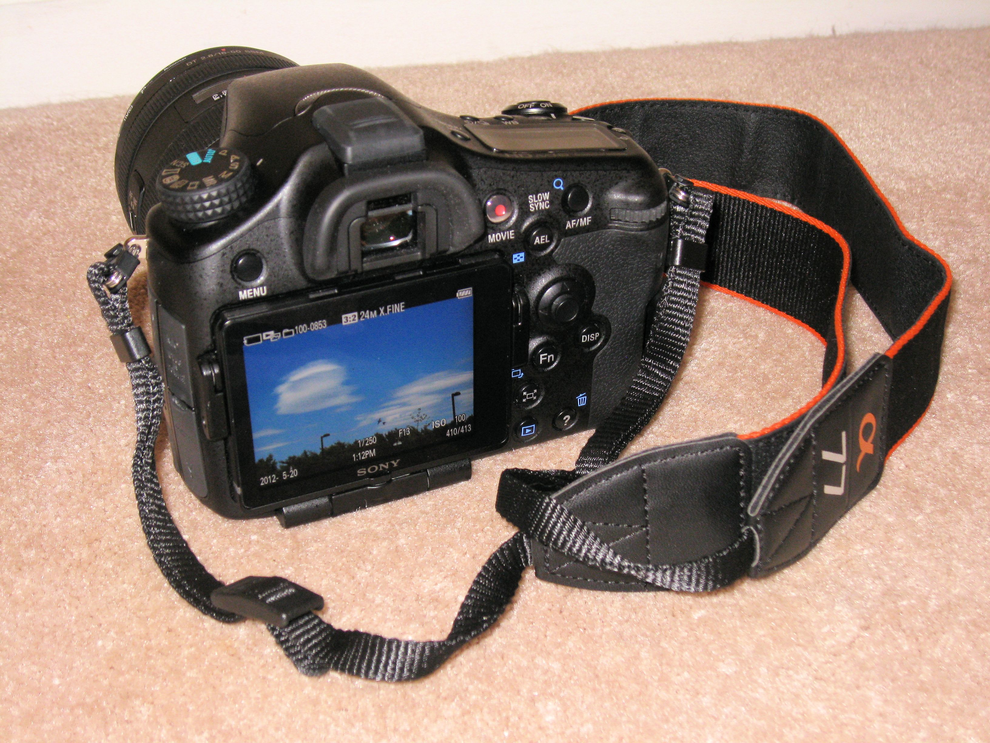 Sony Alpha 77 with LCD screen open and display on.